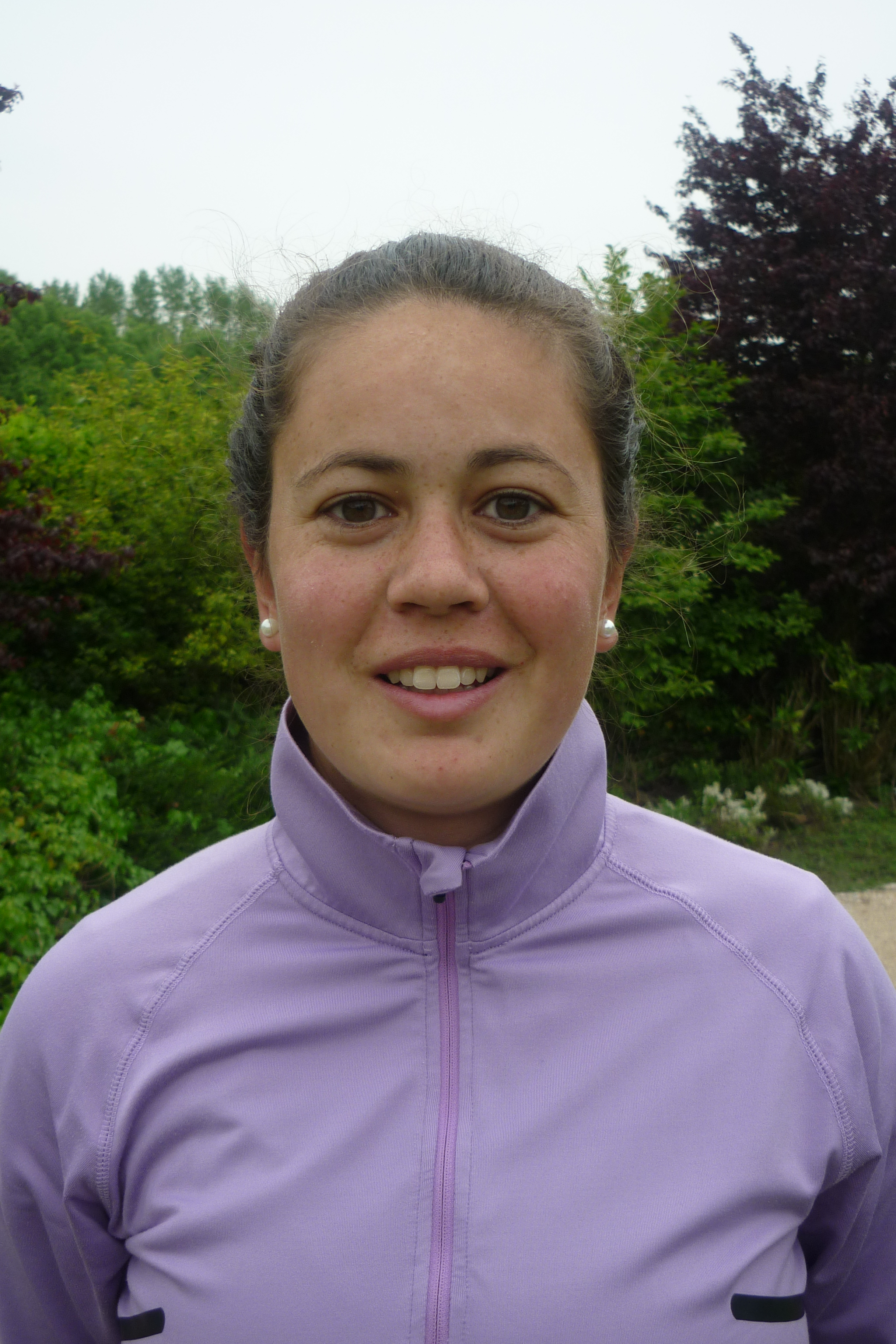 Marieke Nivard at Ladies Open at Broekpolder GC